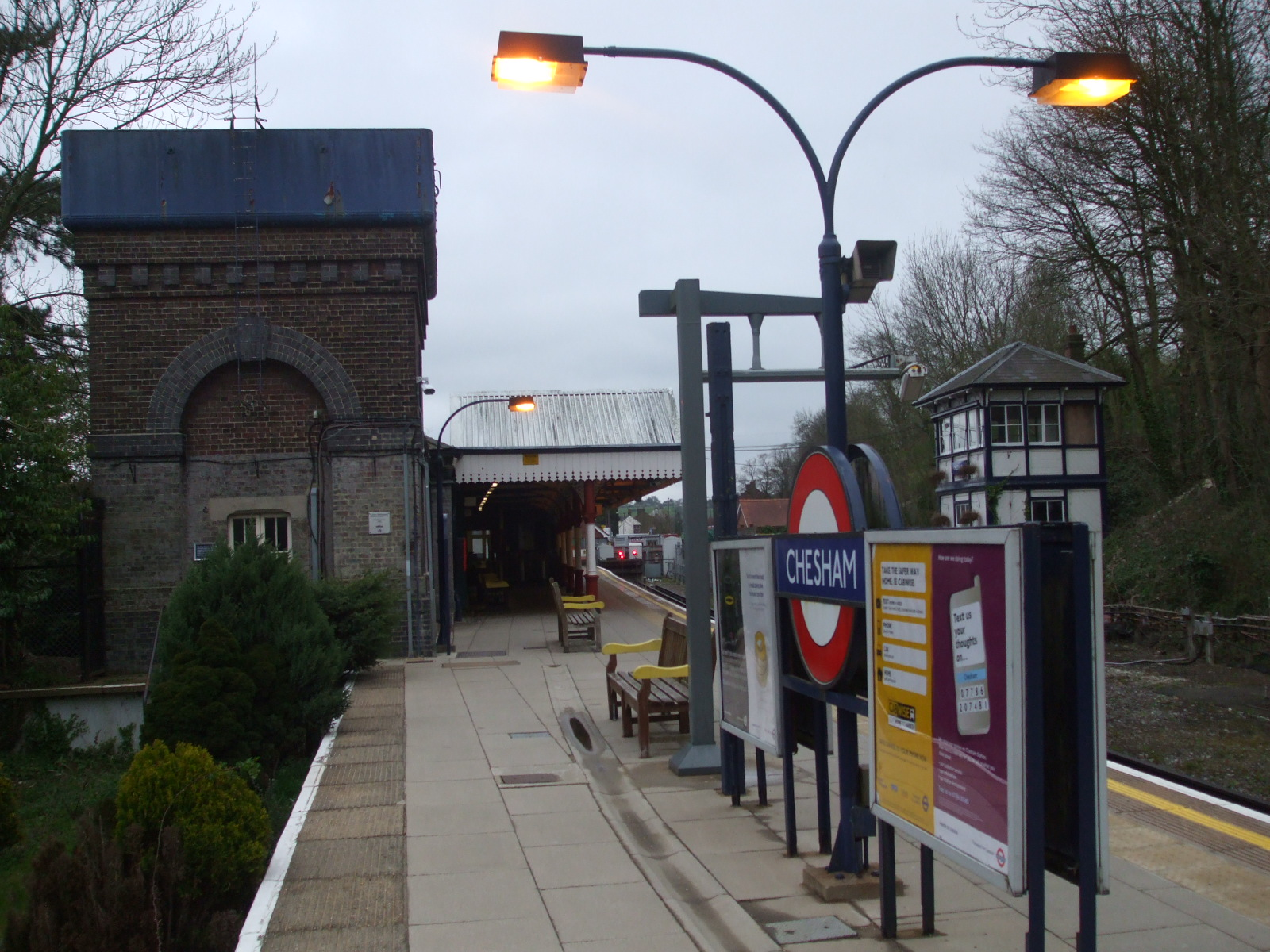 Chesham tube station garden, occupying part of the trackbed of the disused platform. Won an award in 1993. Former water tower in the background, signal box also visible